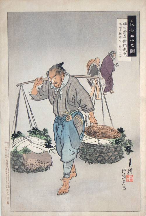 Ronin are masterless samurai. Chushingura is the true story of 47 samurai who became masterless in 1701, after their lord had been forced to commit ritual suicide (seppuku) for assaulting a court official who had insulted him. They avenged him by killing the court official after patiently planning for over a year. They were themselves then forced to commit seppuku.